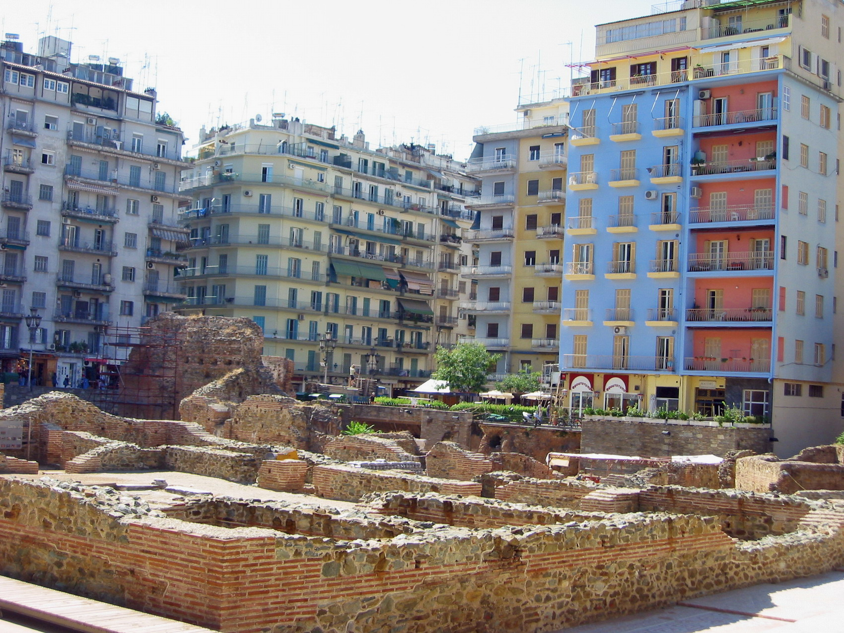 Archaeological finds in the colourful Navarinou Square (Roman imperial Palace of Galerius), in central Thessaloniki, Greece.